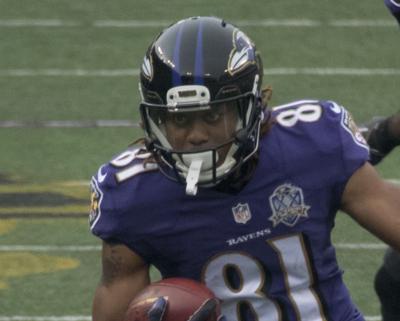 Baltimore Ravens wide receiver, Kaelin Clay, playing against the Seattle Seahawks on December 13, 2015.